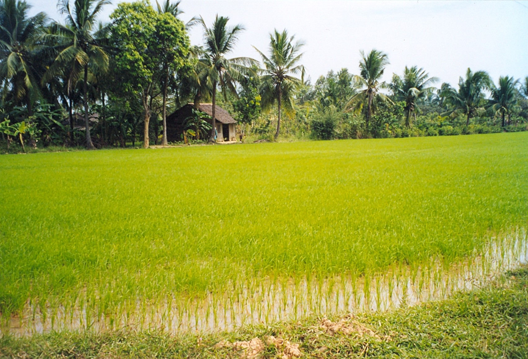 Countryside around Cái Mon, Mekong Delta, Vietnam. Cái Mơn , thuộc xã Vĩnh Thành, huyện Chợ Lách tỉnh Bến Tre